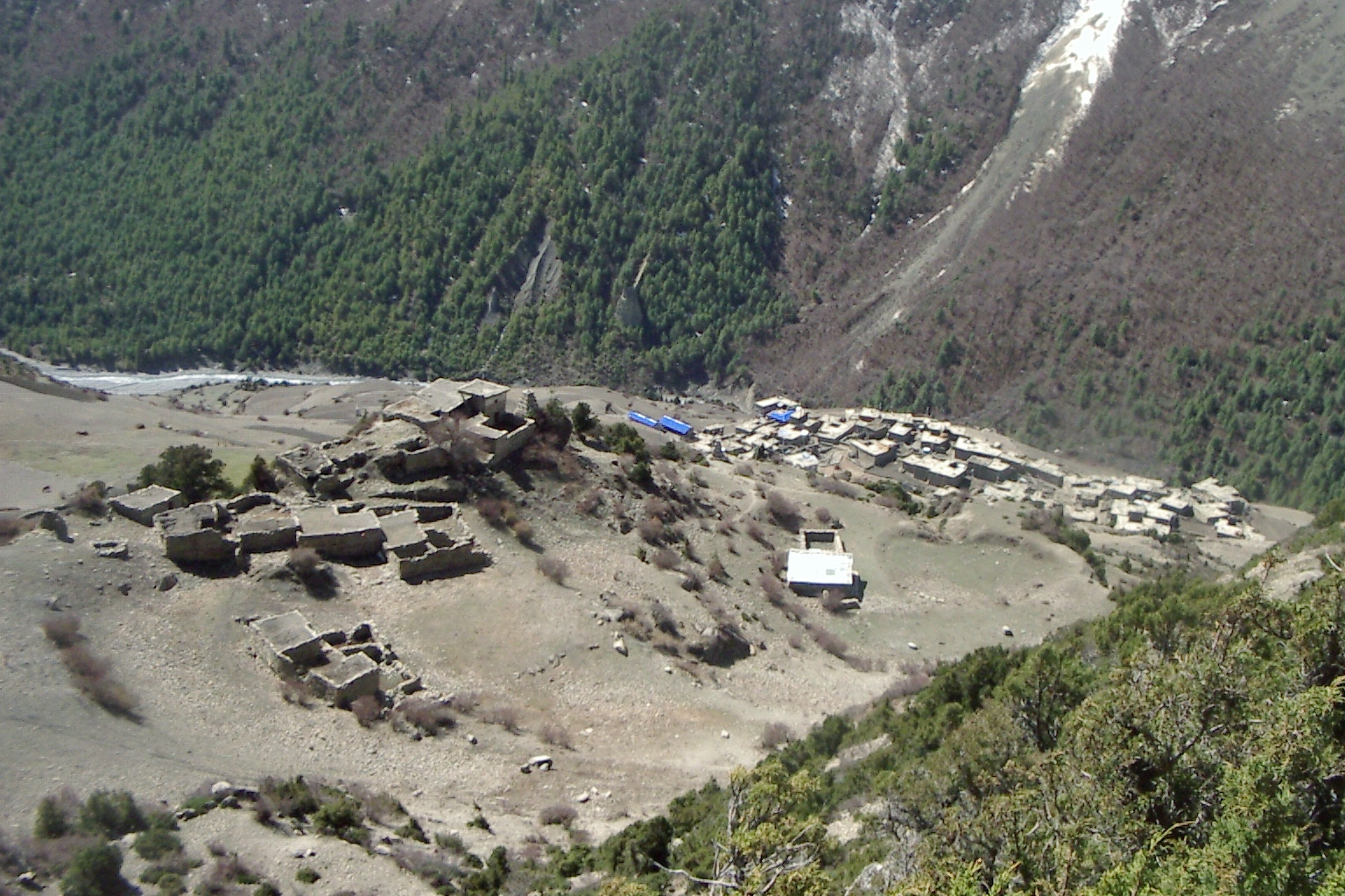 Middle and lower Khangsar above the Khangsar Khola